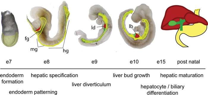 The schematic shows mouse embryos at different stages of development with the endoderm tissue highlighted in yellow, the liver in red and the gall bladder in green. The major developmental events are listed below. The endoderm germ layer is formed during gastrulation (e6.5-e7.5). Throughout gastrulation and early somite stages of development (e7-e8.5) the endoderm is patterned along the A-P axis into foregut (fg) midgut (mg) and hindgut (hg) progenitor domains. Morphogenesis forms foregut and hindgut pockets as the endodermal cup is transformed into a gut tube. By e8.5 hepatic fate specified in a portion of the ventral foregut endoderm adjacent to the heart. As the embryo grows the endoderm forms a gut tube and the liver domain moves to the midgut. The liver diverticulum (ld) forms by e9 and expands into an obvious liver bud (lb) by e10. The liver grows, and by e15 hepatoblasts are differentiating into hepatocyte and biliary cells. Final maturation of the liver is gradual and continues into the postnatal period.